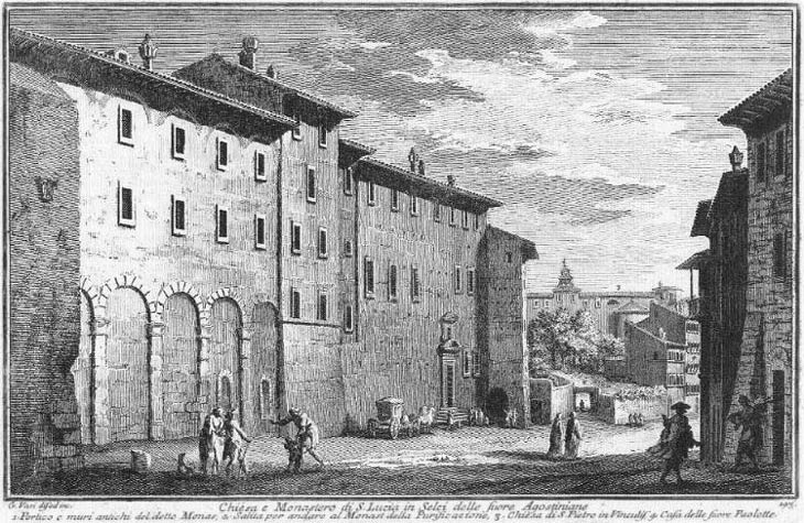 1) Ancient walls of S. Lucia in Selci; 2) Street leading to Monastero della Purificazione; 3) S. Pietro in Vinculis; 4) Casa delle Suore Paolotte.